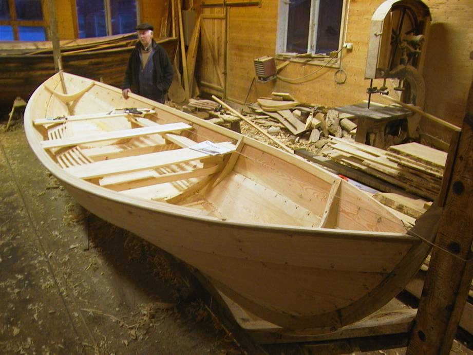 Perder Vassnes, building the oselvar "150 Ægir"